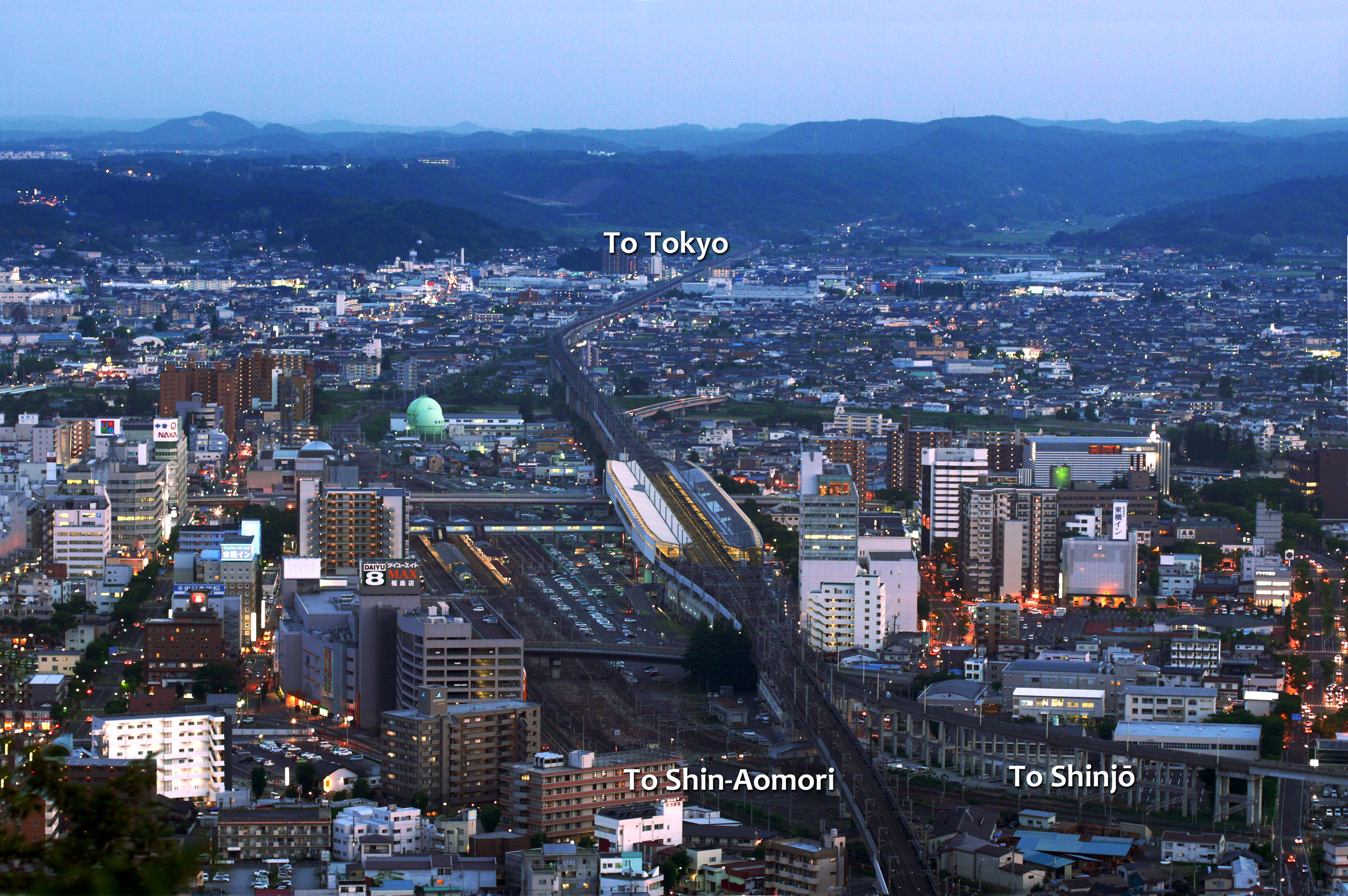 This is Fukushima Station in Fukushima City, Fukushima Prefecture, Japan. This displays the point at which the Yamagata Shinkansen (bottom right tracks) separates from the Tohoku Shinkansen (center vertical tracks). I also labeled the directions of where the tracks lead to.